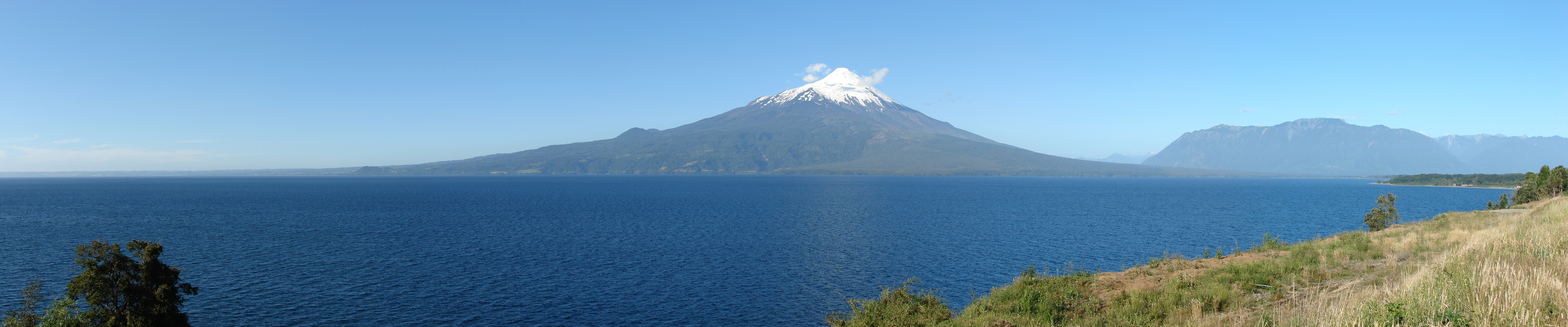 A panoramic view of the Osorno Volcano from Llanquihue Lake. The image was created from six separate photos stitched together using hugin and cropped and exported using GIMP.